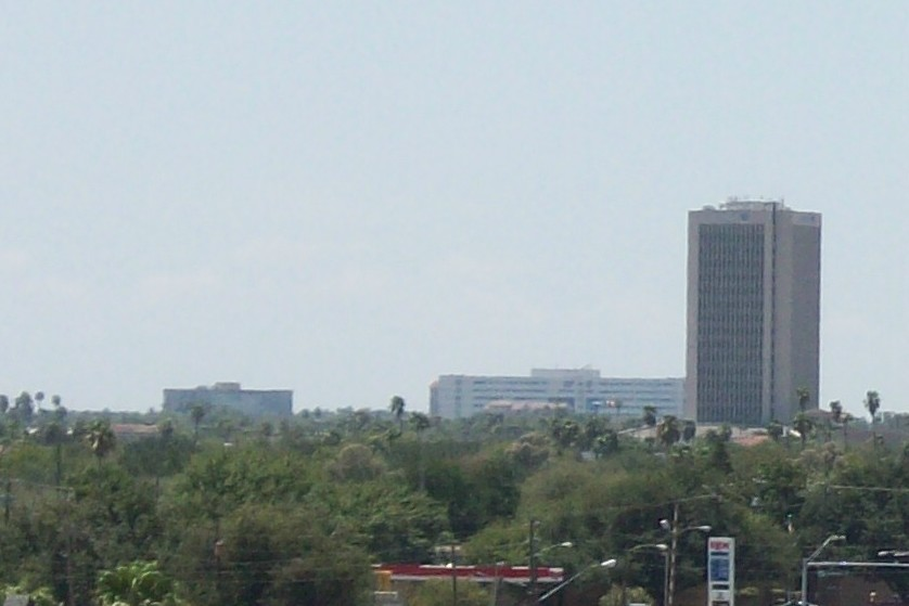 McAllen Skyline